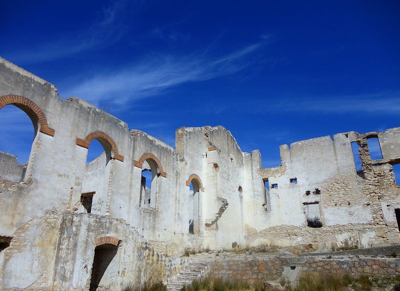 Mina Cinco Señores - Mineral de Pozos, Guanajuato, México.